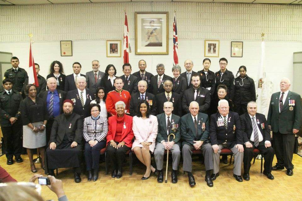 Rathika Sitsabaiesan is seated with receipients of the Queen Elizabeth II Diamond Jubilee medals after the presentation on February 24, 2013 at the Banquet Hall of Royal Canadian Legion(Branch 258), Scarborough, and Metropolitan Toronto. The office of Rathika Sitsabaiesan, Member of Parliament, House of Commons organized the Queen’s Diamond Jubilee Presentation Ceremony. The medals and certificates are bestowed from the Governor General of Canada.